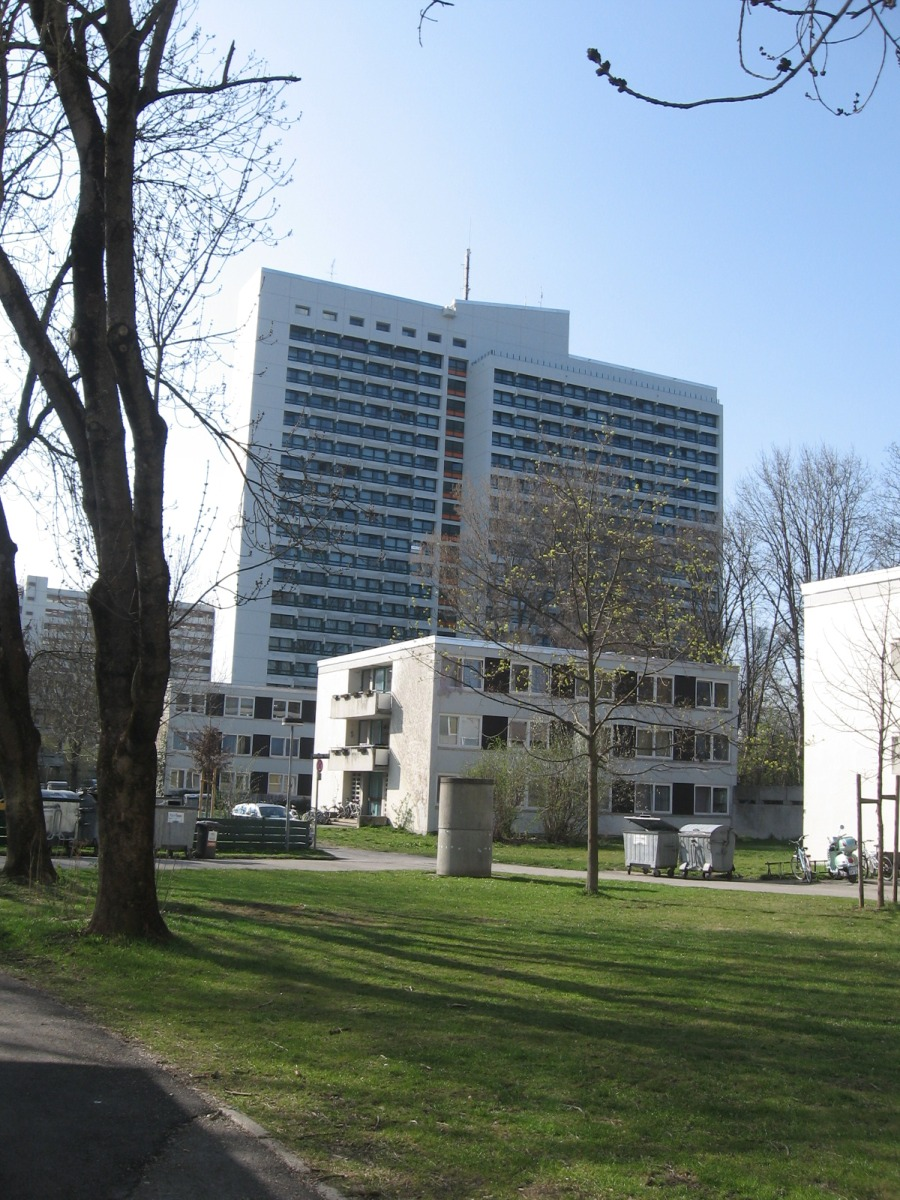 Studentenstadt Freimann in Munich